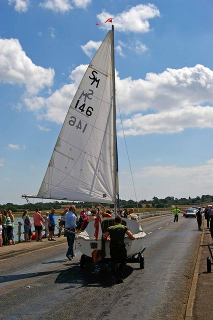 Across the Strood. This is the Strood the causeway to Mersea Island, as part of "Mersea Week" West Mersea Yacht Club organise the 219254. Competitors must circumnavigate the island in a pure sail craft, size being limited by the fact it must be able to be manhandled across The Strood. The handicap race is a test of seamanship, knowledge of the tides and currents and pure blind luck! The rules state you must declare to the committee your start time and your intention to navigate clockwise or anticlockwise one week before the start, a good guess as to the weather conditions can make an enormous difference to the success of the enterprise. In this shot army volunteers are helping the oldest crew in the race to cross the road, the crew of two had a combined age well in excess of 150 years.